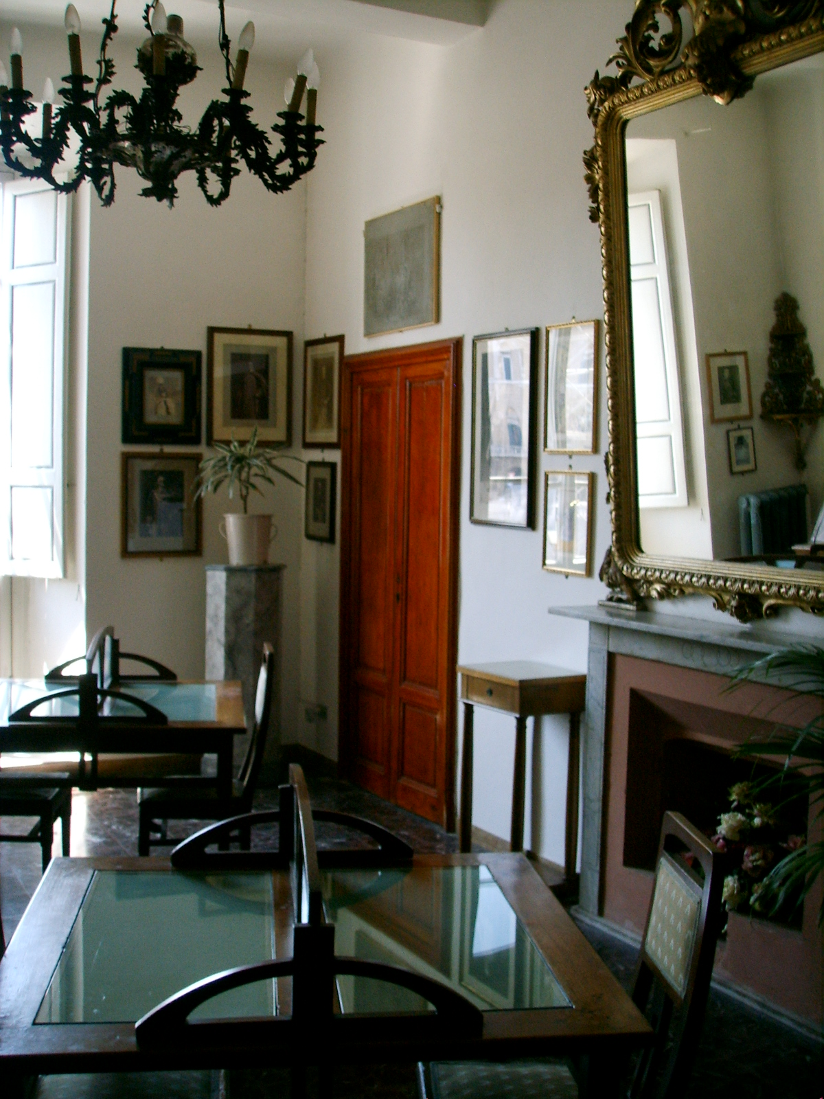 Royal hotel victoria